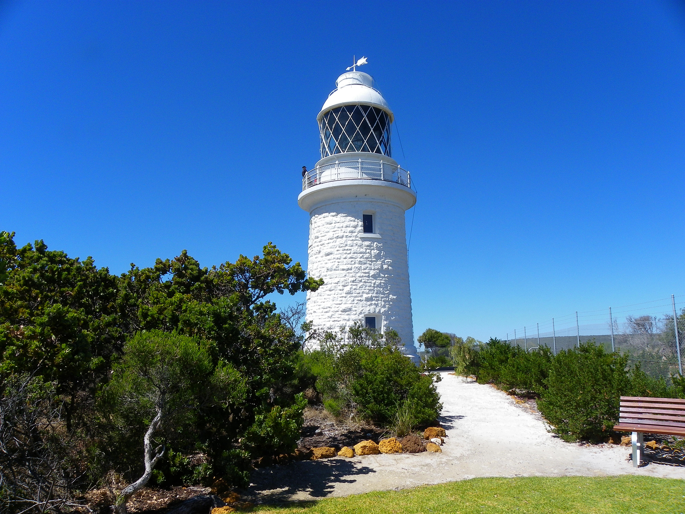 The lighthouse at Cape Naturaliste, WA was opened in 1904 and is still operational today.